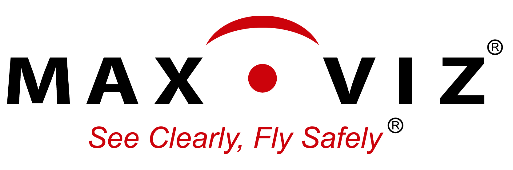 Max-Viz product logo